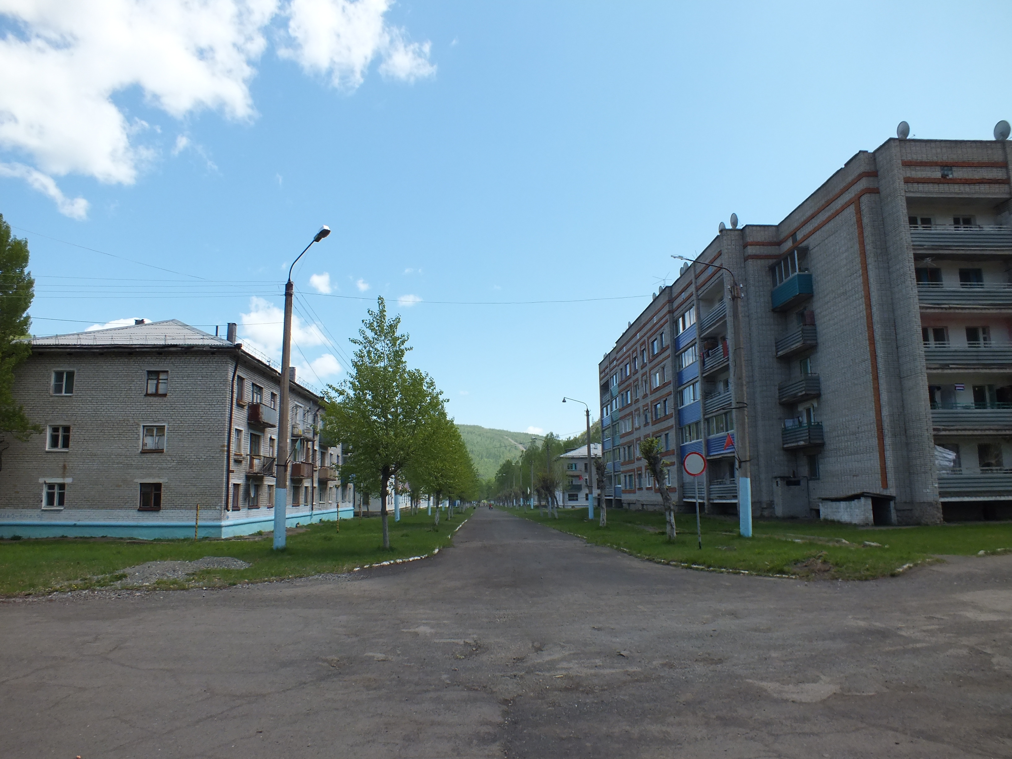 Gorniy Solnechniy rayon Khabarovskiy kray